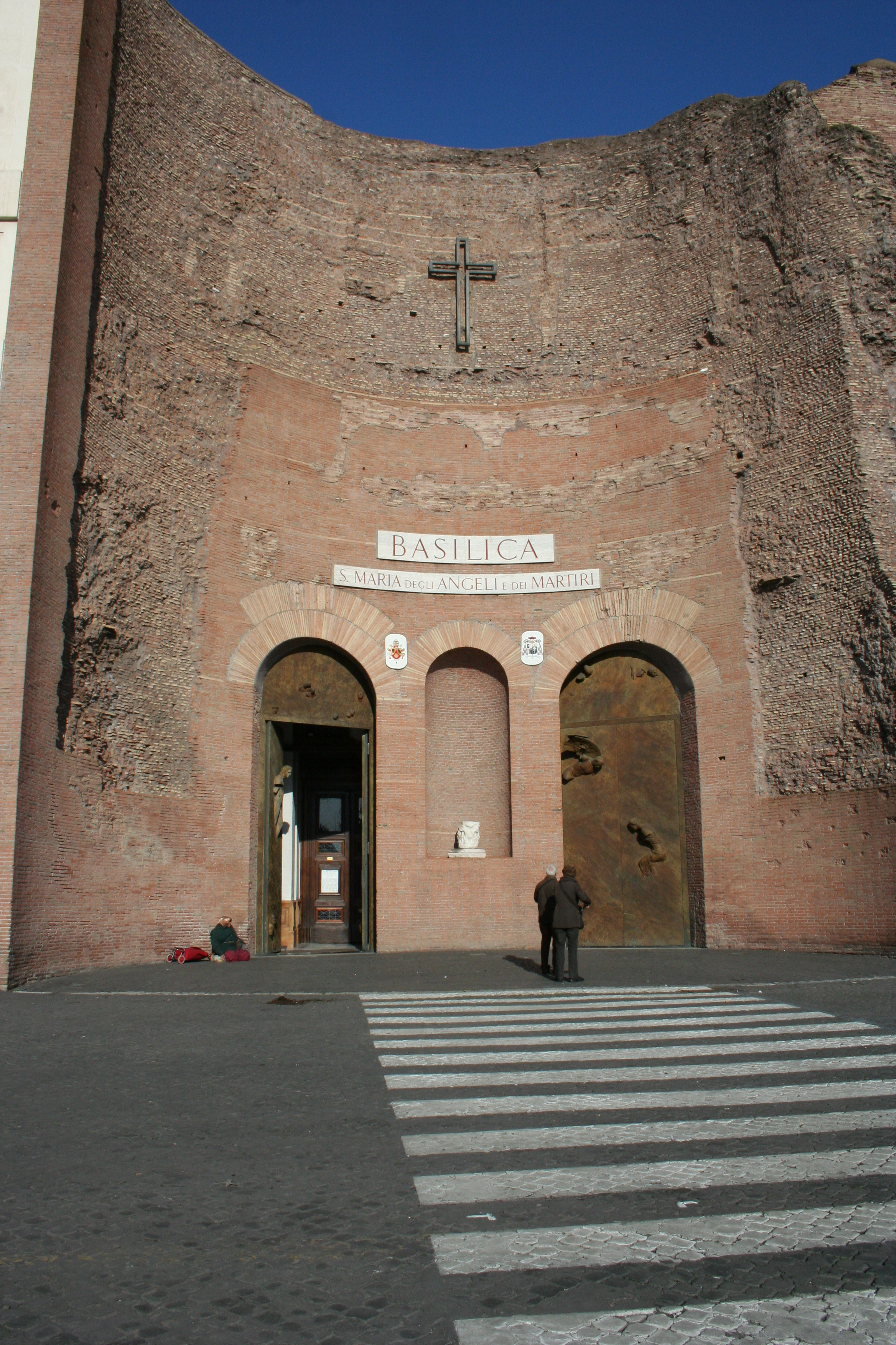 Basilica S. Maria degli Angeli e dei Martiri, Rome, Italy